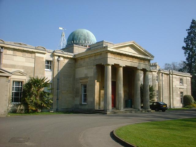 Picture of Institute of Astronomy, Cambridge, observatory building